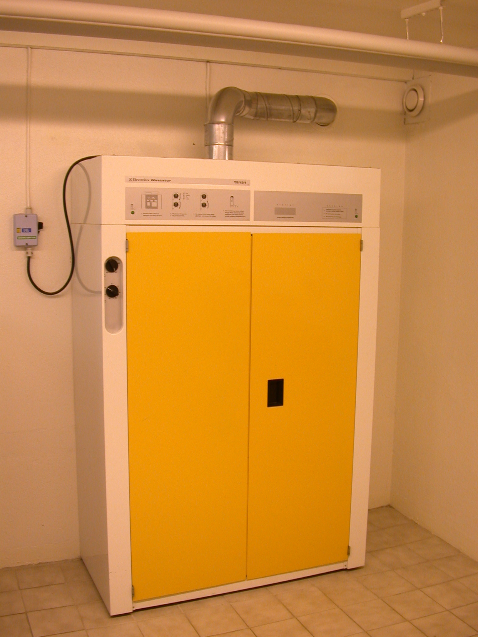 Drying cupboard